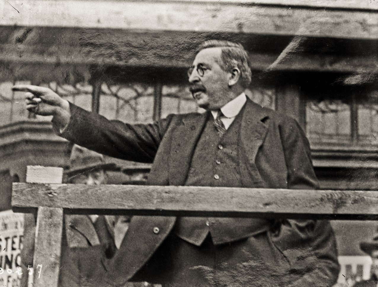 James O'Mara during a speech